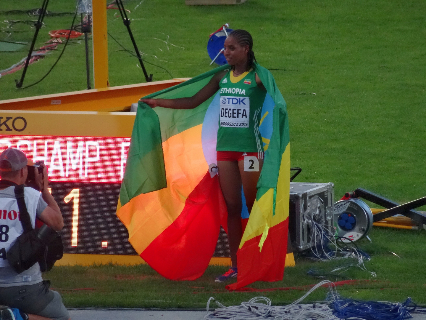 2016 IAAF World U20 Championships in Bydgoszcz, 3000m women final